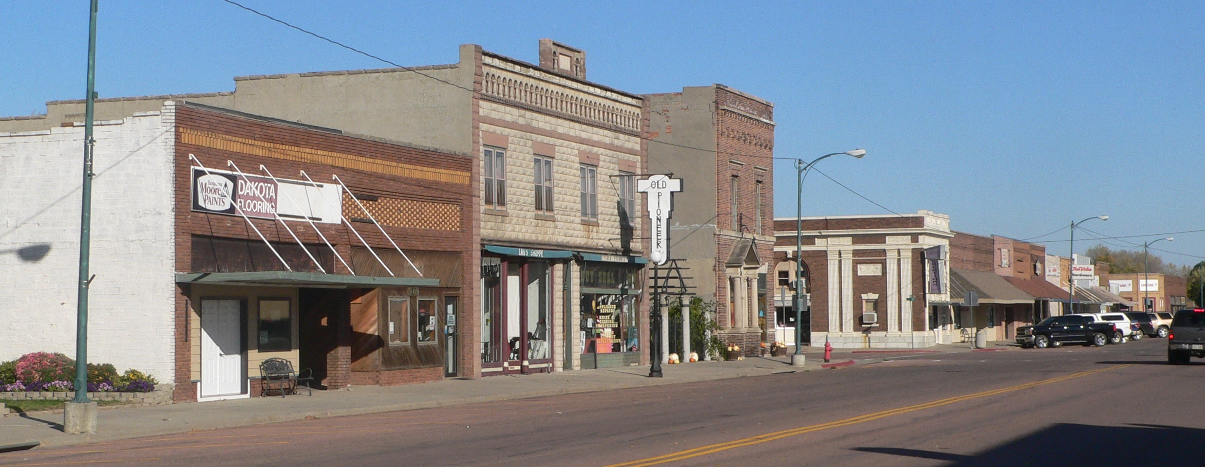 Downtown Gregory, South Dakota: west side of Main Street, looking northwest from about 6th Street. The building with the projecting "Old Pioneer" sign is the Tackett-Underwood building; just beyond it, at the southwest corner of 6th and Main, is the Gregory National Bank building. Both buildings are listed in the National Register of Historic Places.